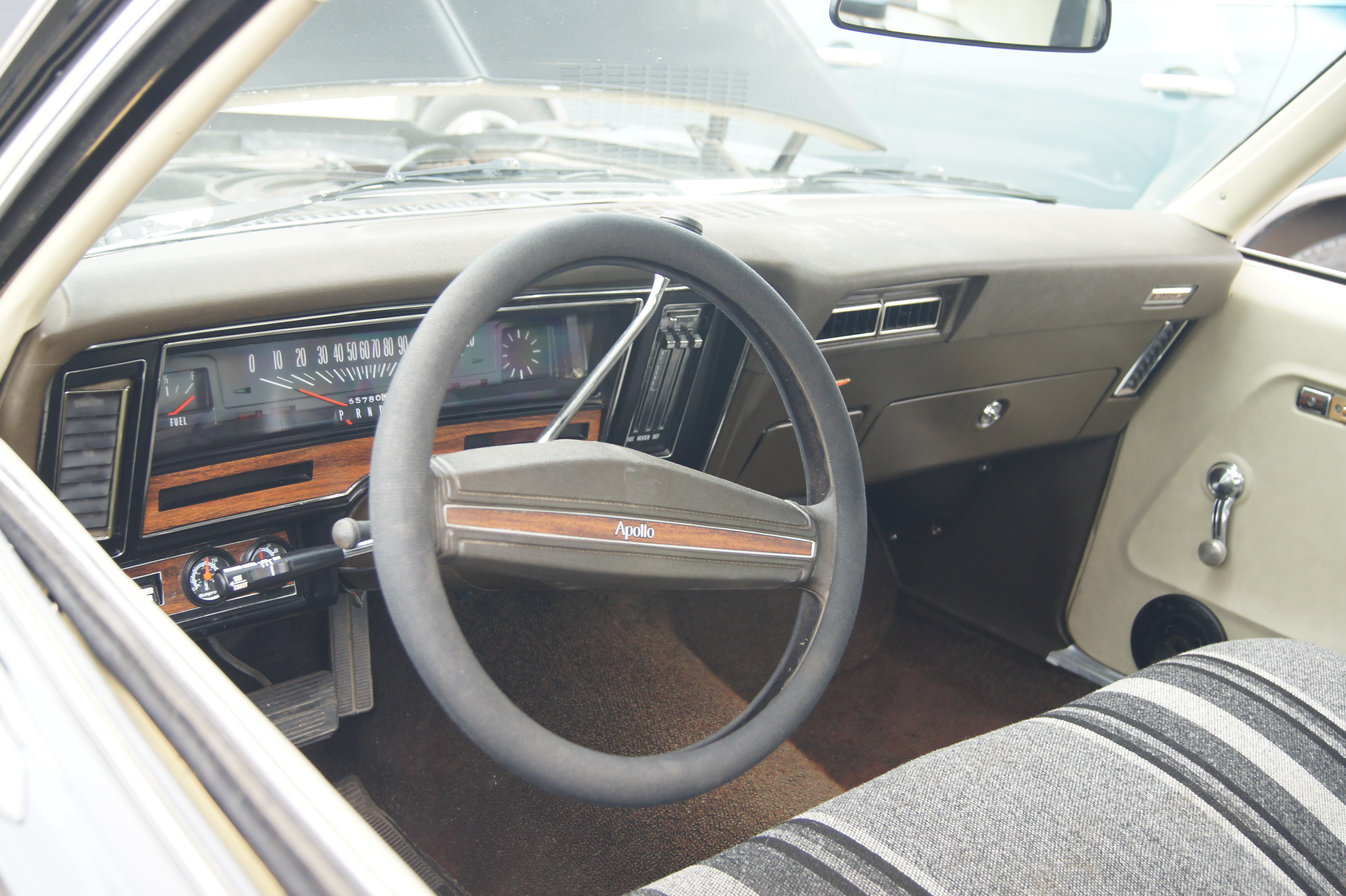 HISTORIC DOWNTOWN HASTINGS CRUISE-IN & CLASSIC CAR SHOW July 11, 2015 Click here for more car pictures at my Flickr site.